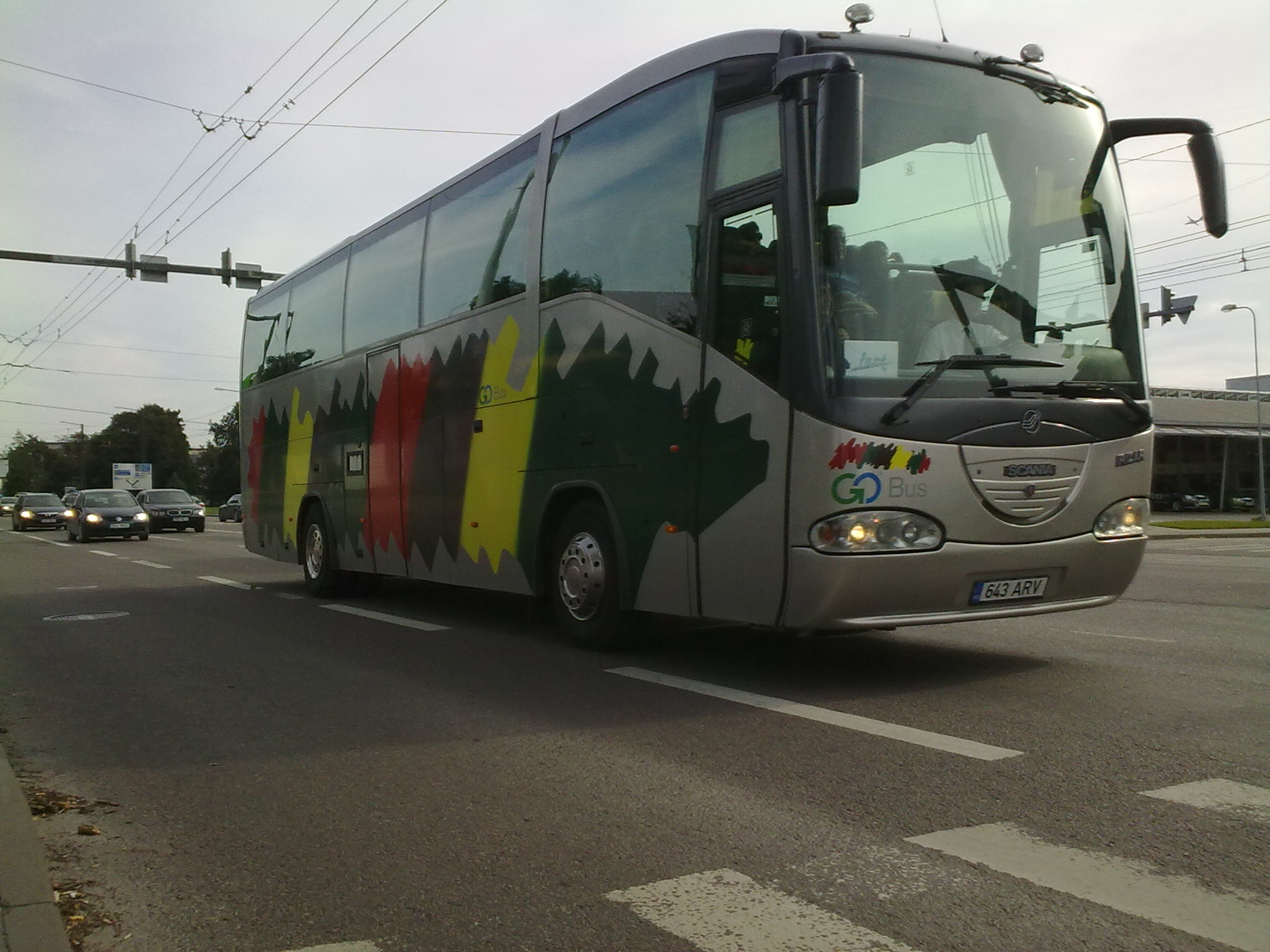 GoBus' Scania Irizar Century in TallinnEesti: GoBus'i Scania Irizar Century Tallinnas